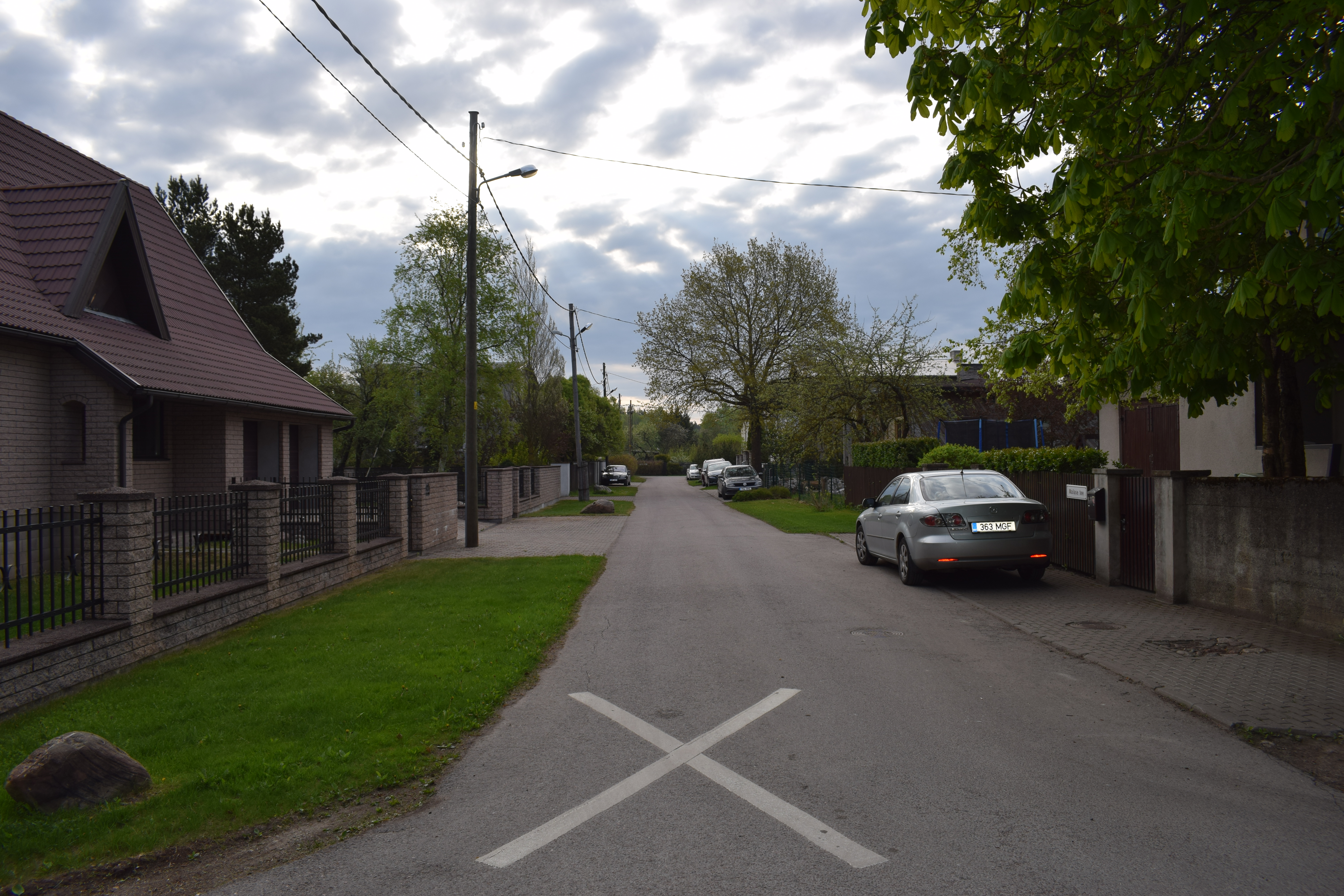 Mailase road